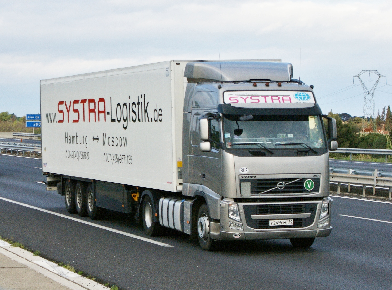 Systra Logistik Volvo FH